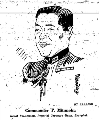 Caricature of Toyo Mitunobu by Sapajou, Shanghai, 1939